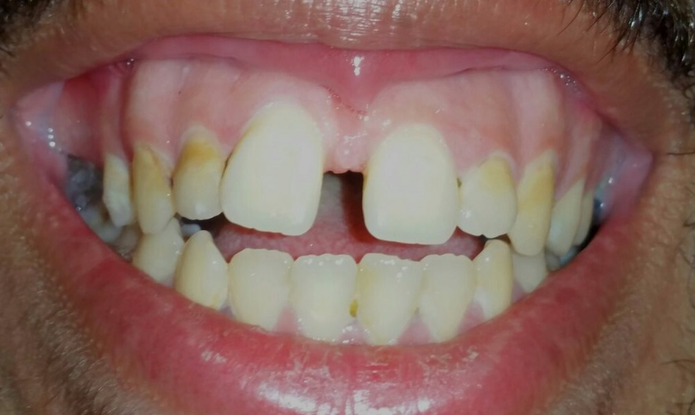 Anterior open bite in a 24 year old patient